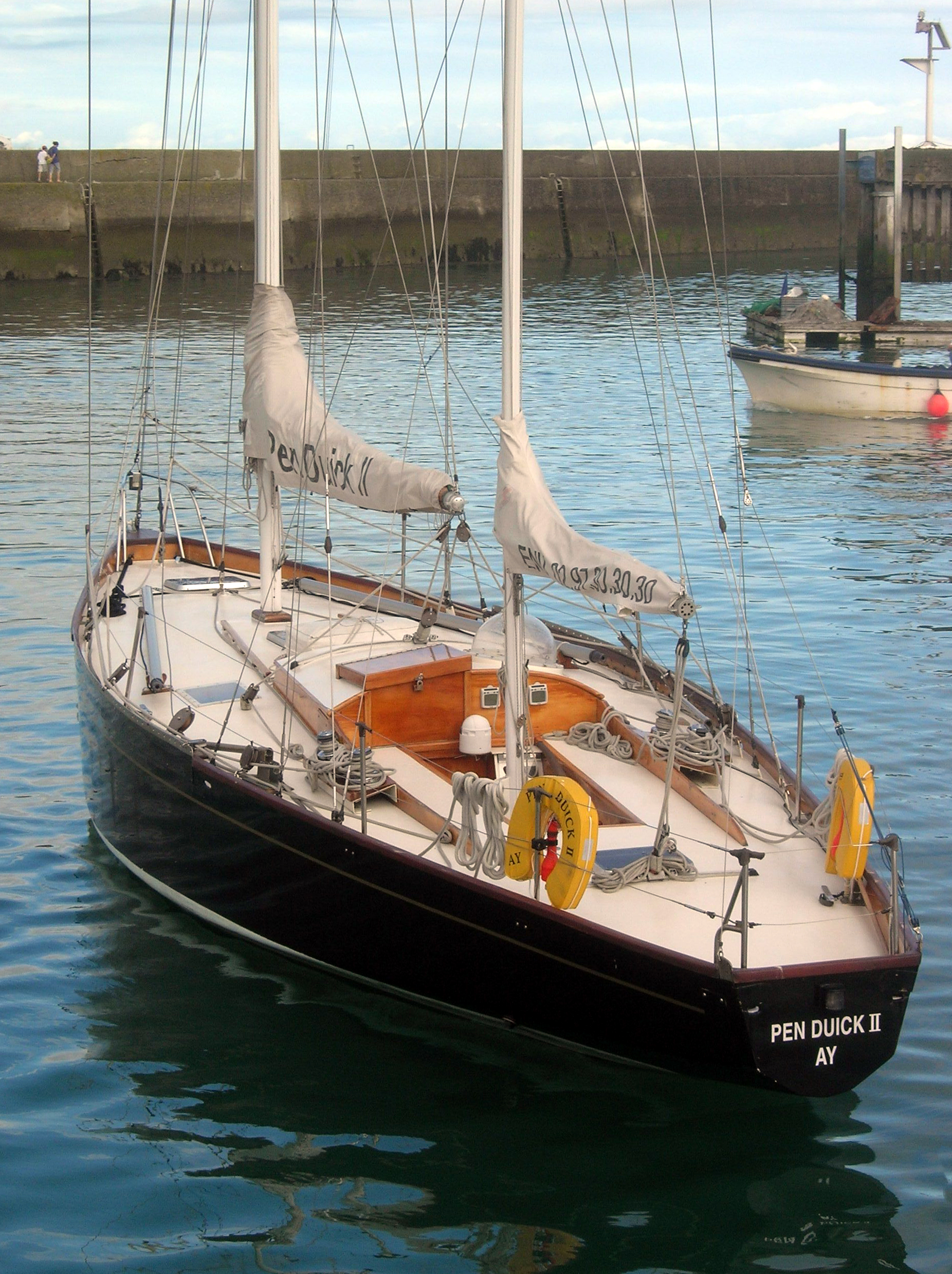 Description =Pen Duick II d'Eric Tabarly a Port Haliguen Source =Photo taken by Remi Jouan Date =Aout 2006 Author =Remi Jouan